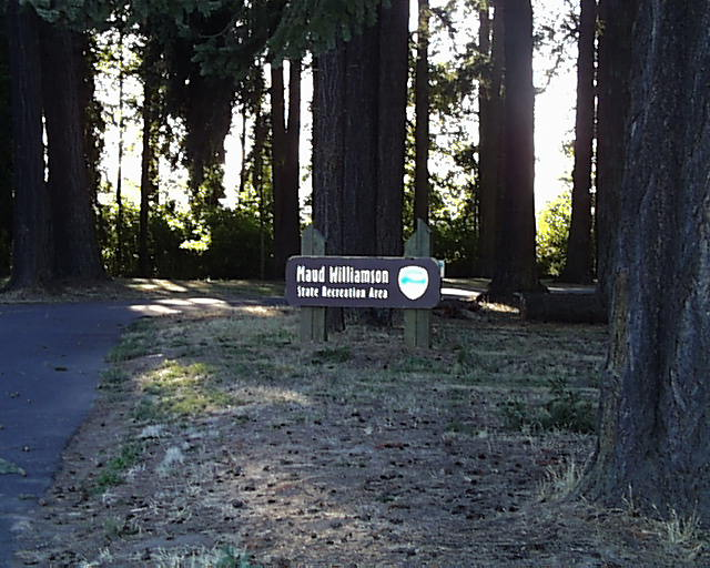 Entrance sign at Maud Williamson State Park in Yamhill County, Oregon